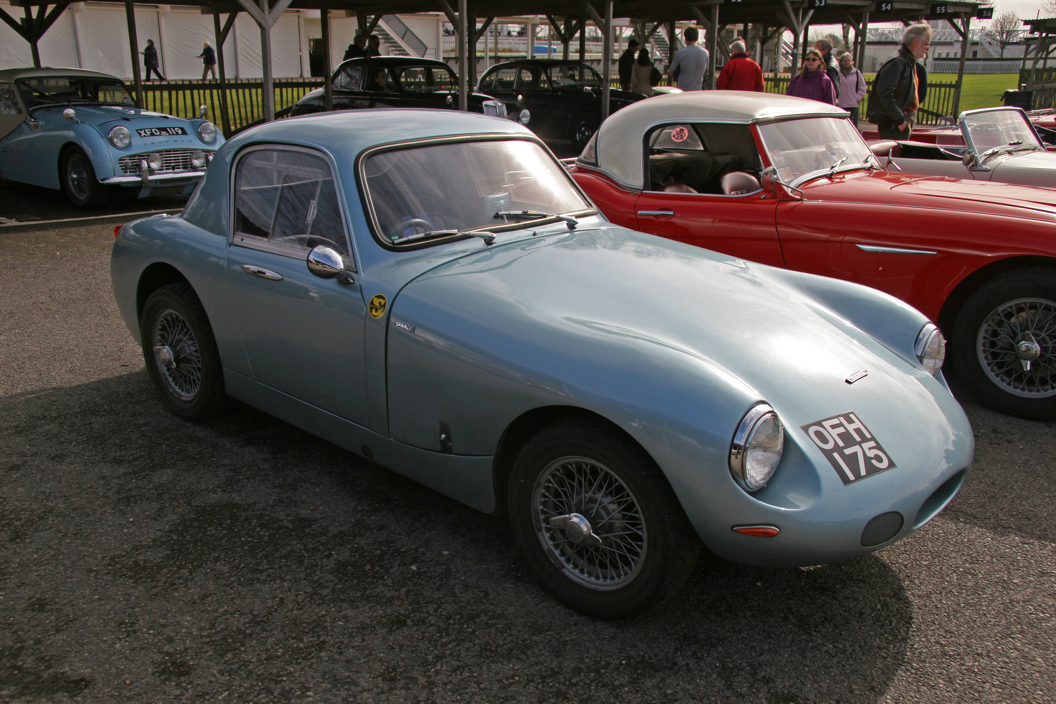 Austin-Healey Sebring Sprite Coupe